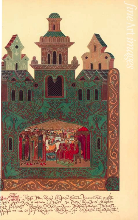 Embassy of Grand Prince Simeon Ivanovich the Proud to Tver. State History Museum, Moscow. Watercolour on parchment